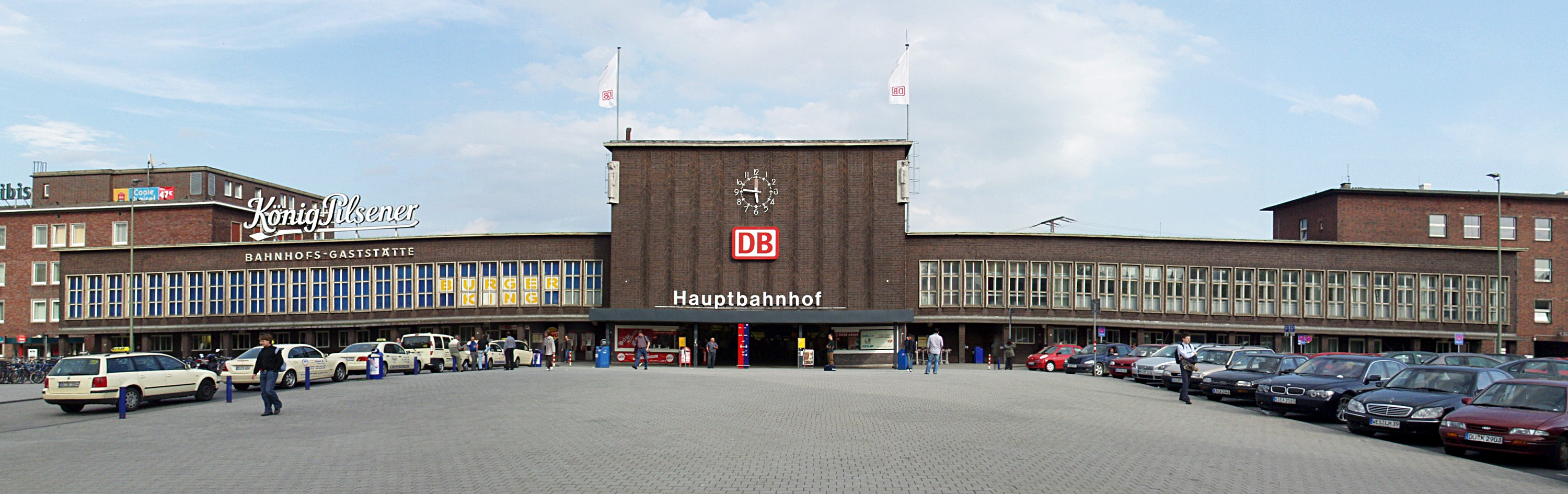 Main building of main railway station Duisburg, Germany This is a photograph of an architectural monument.